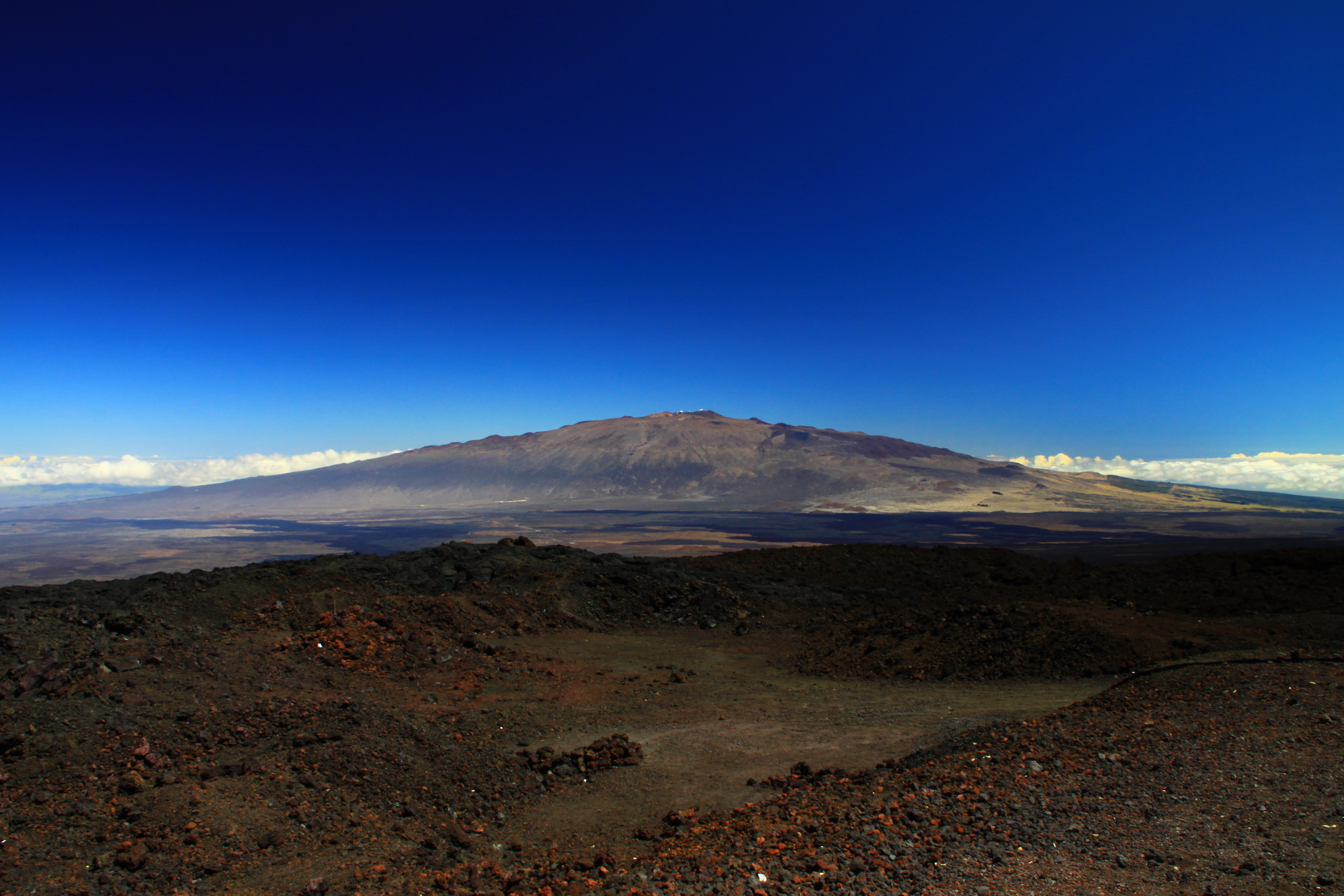 View of Mauna Kea from Mauna Loa observatory. Big island of Hawaiʻi.